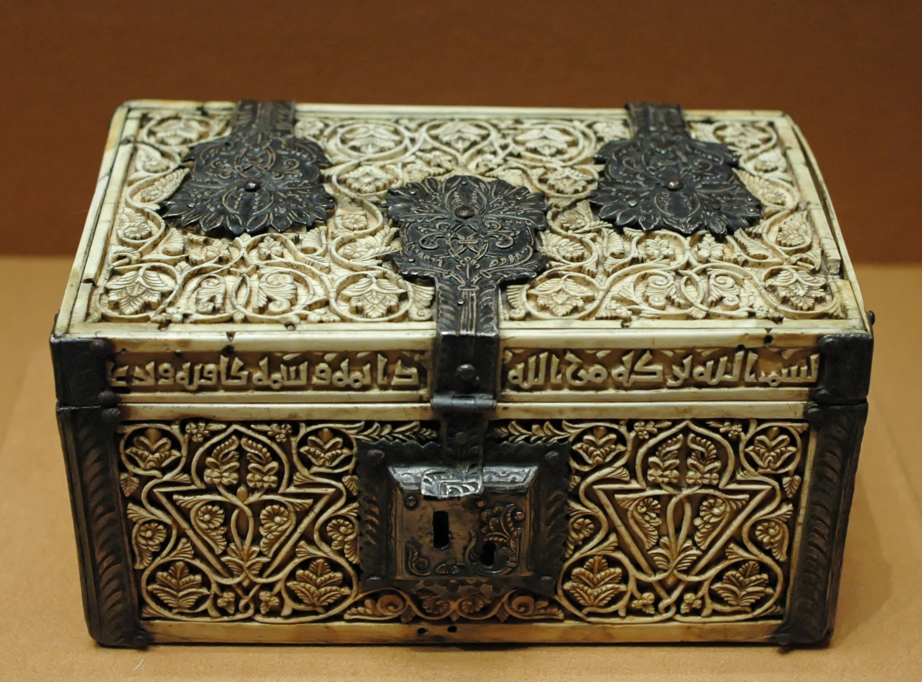 Casket with a Kufic inscription on the lid offering wishes and the date 355 AH. Period of the Umayyad Caliphs of Córdoba.